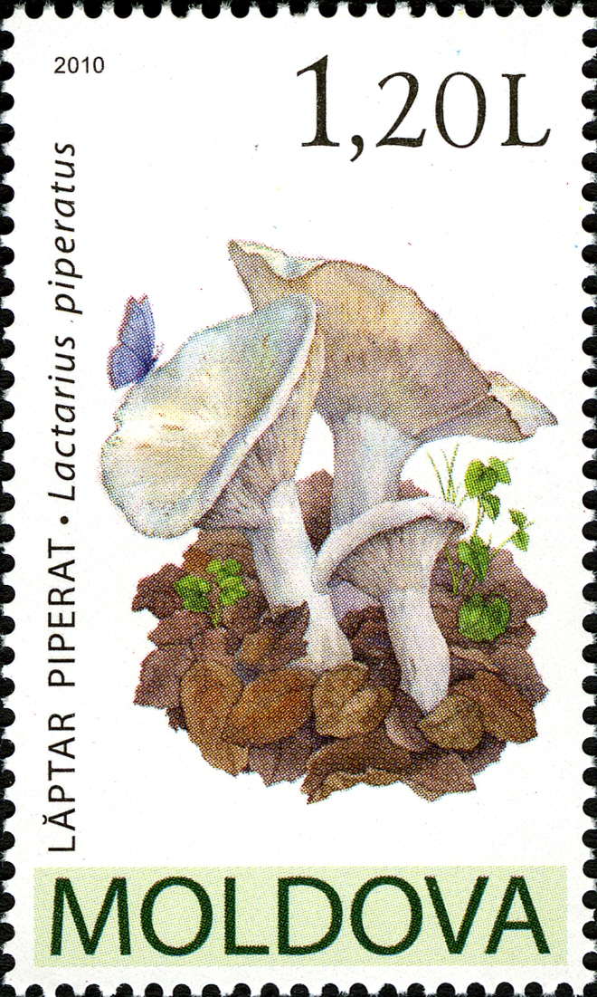 Stamps of Moldova, 2010